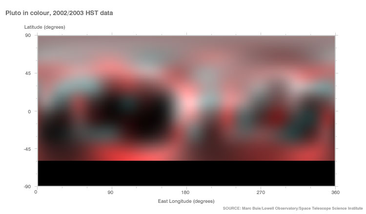 This newest image of Pluto - our most distant planetary neighbor - shows more detail than any taken before. It might not look like much, but keep in mind that Pluto is only 1,400 miles (2,253 km) across - about two-thirds the size of our Moon - and more than 3.5 billion miles (5.6 billion km) away. It took the Hubble Space Telescope a dozen orbits around the Earth for the Hubble Space Telescope to take the picture, and nearly two years of computer processing to stitch all the information together. The image shows most of the spherical surface of Pluto spread out into a flat map. The red areas indicate methane ice, which seems to be everywhere. The dark areas may be dirty water-ice. Lighter areas indicate nitrogen frost. The bright spot near the center of the map could be a sign of carbon monoxide